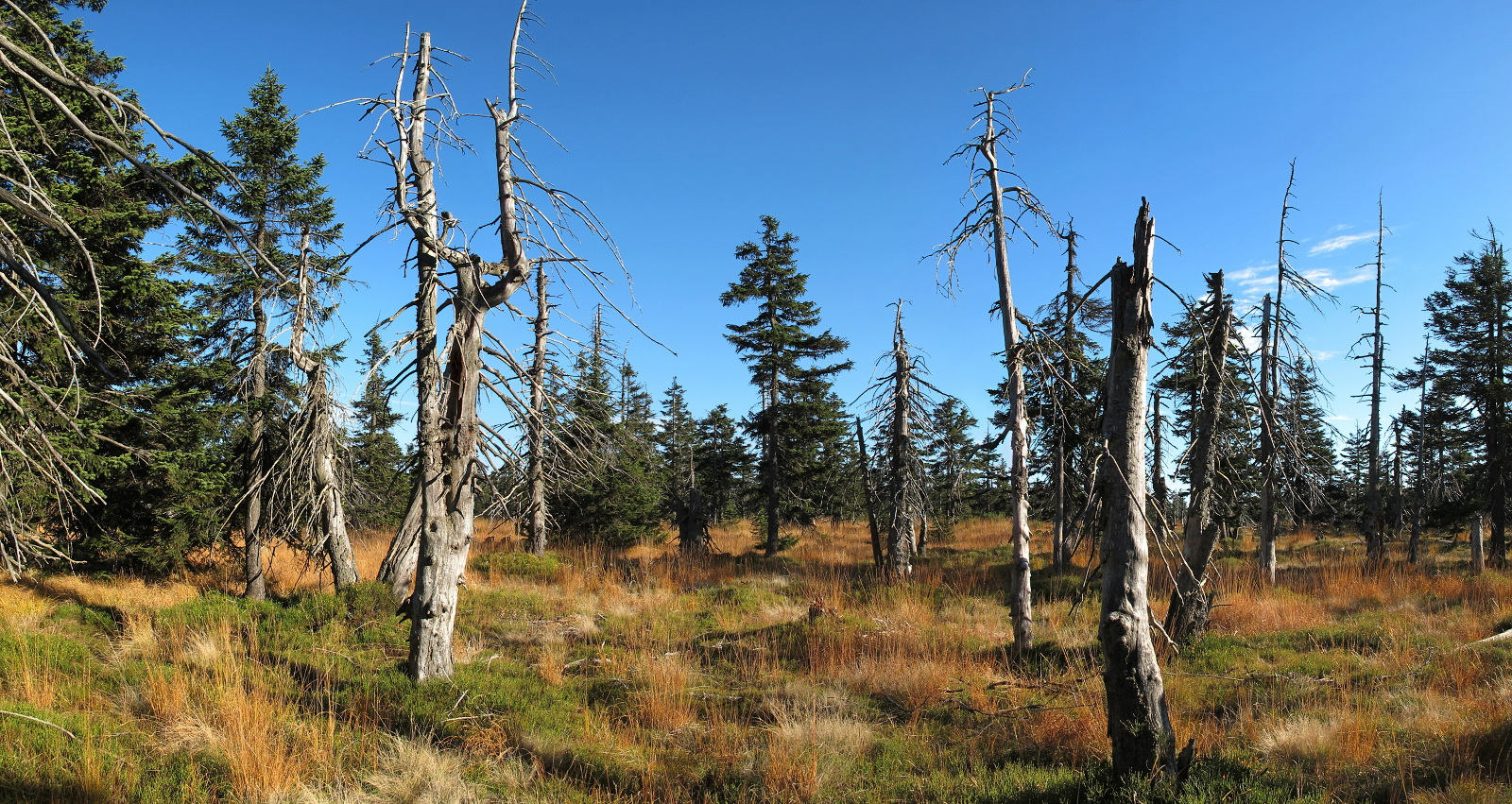 Summit of Kamenec in the Krkonoše Mountains